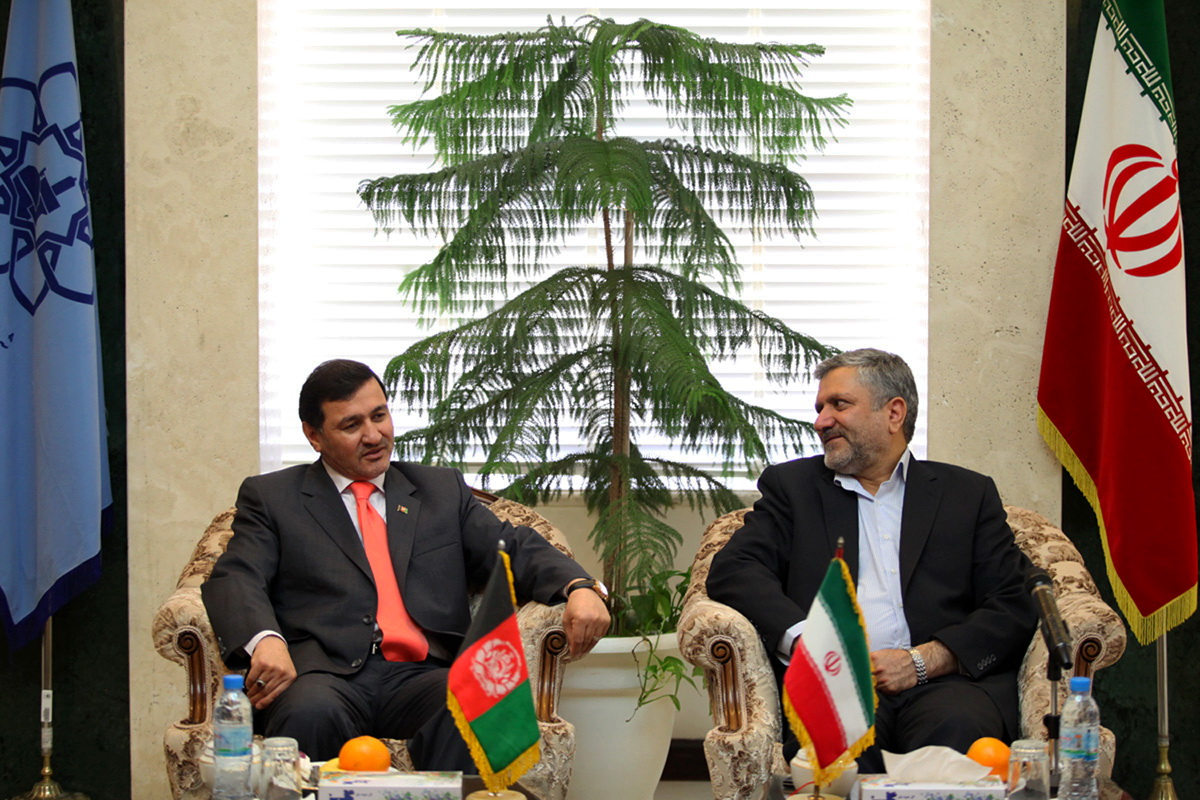 Afghan Consul General met with the Mayor of Mashhad - Seyyed Sowlat Mortazavi and Mohammad Amin Seddighi 02 (4)